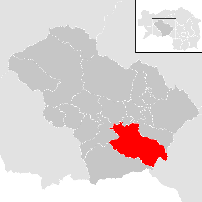 district Murtal in Styria, Austria